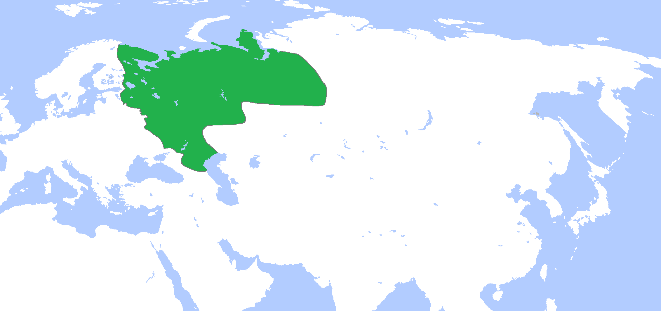 Locator map of Russia (big), c. 1600. (Partially based on Atlas of World History (2007) - The World 1500-1600, map)